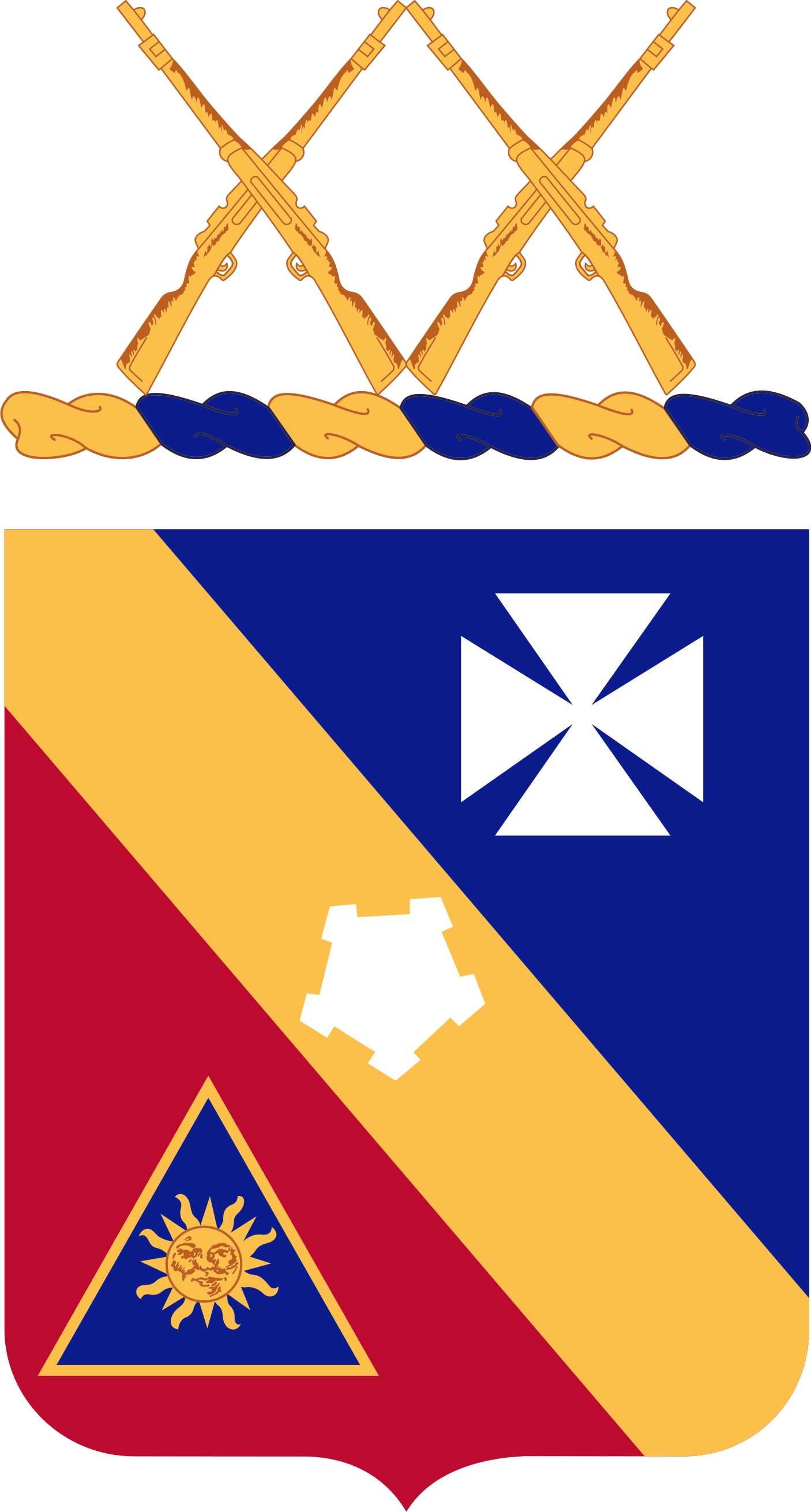 020th Infantry Regiment Coat of Arms